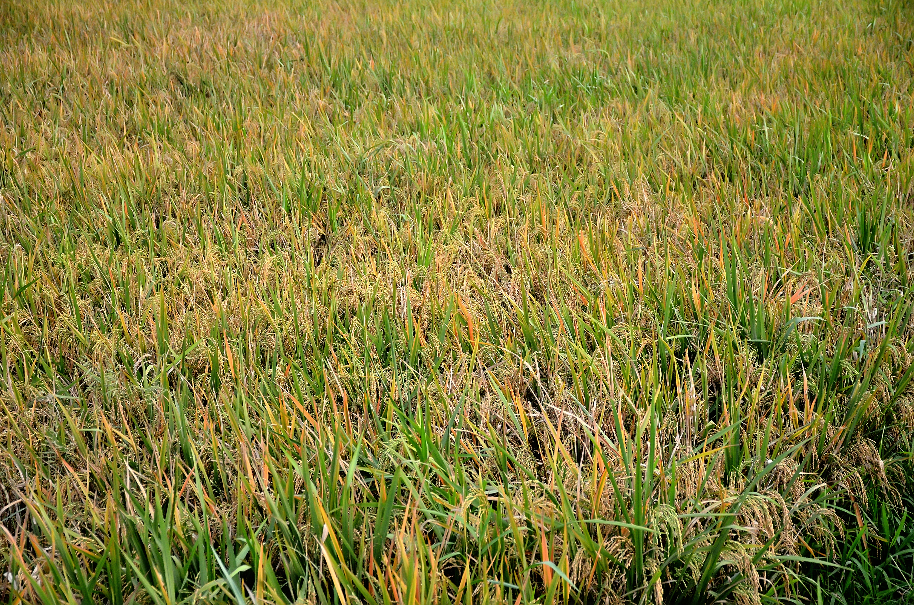 Paddy Field at Eravathour Thrissur